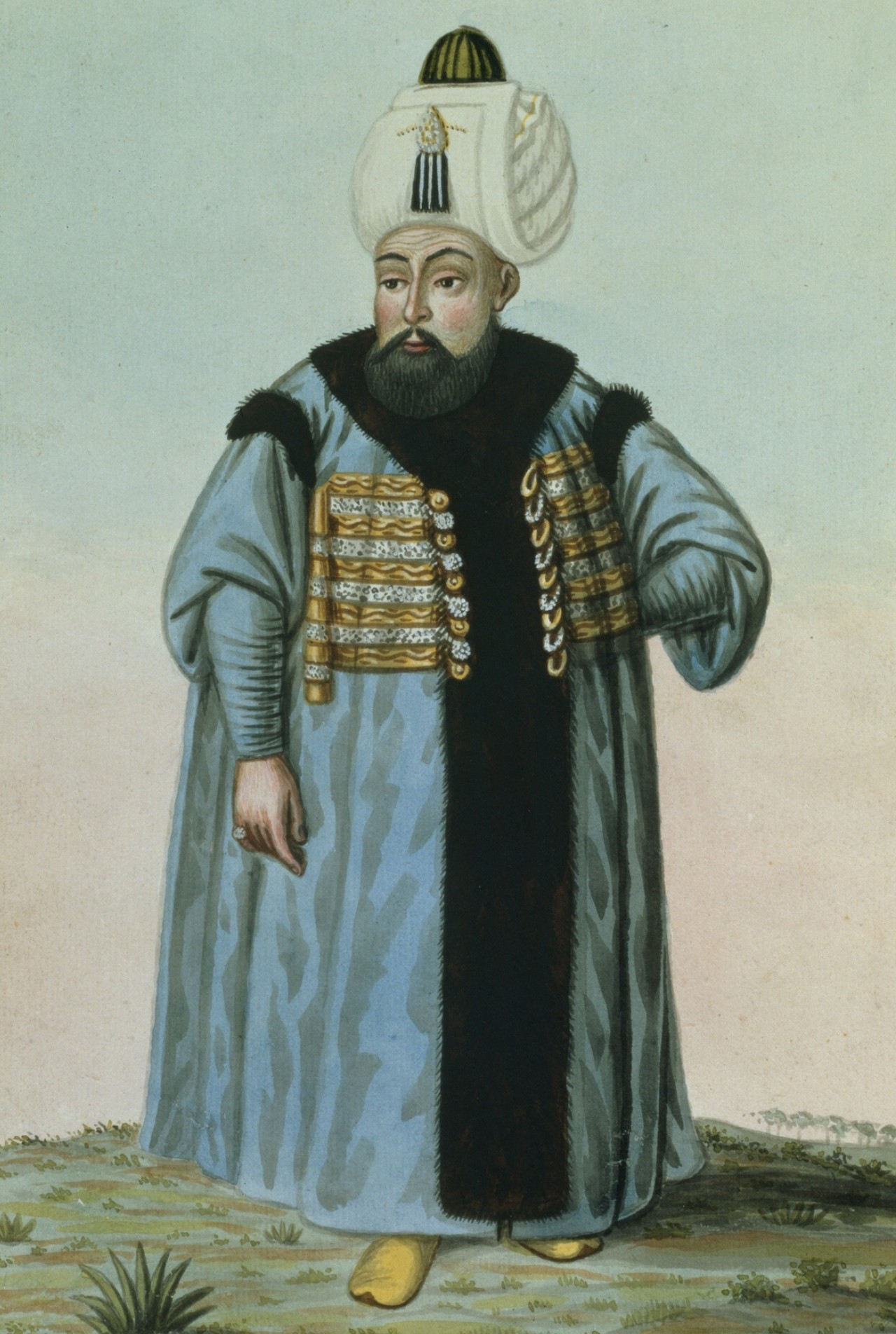 Portrait of Selim II, Sultan of the Ottoman Empire (1566-1574). The portrait has been printed using the Giclée process.